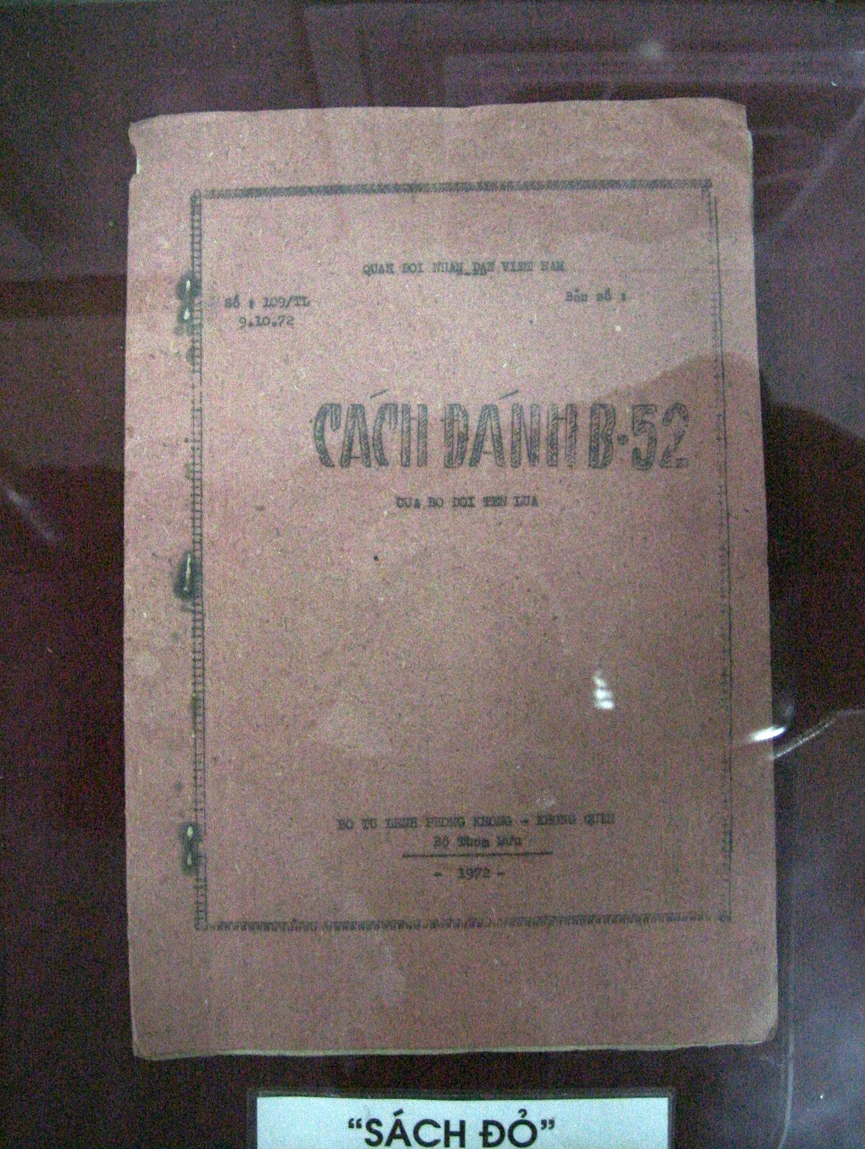 The Red-Cover Manual "A How-to Manual for Air-Defence Missle Force to Shot Down B-52" Bản số 1 của cẩm nang bìa đỏ "Cách đánh B-52" đang được trưng bày tại Bảo tàng Phòng không Không quân